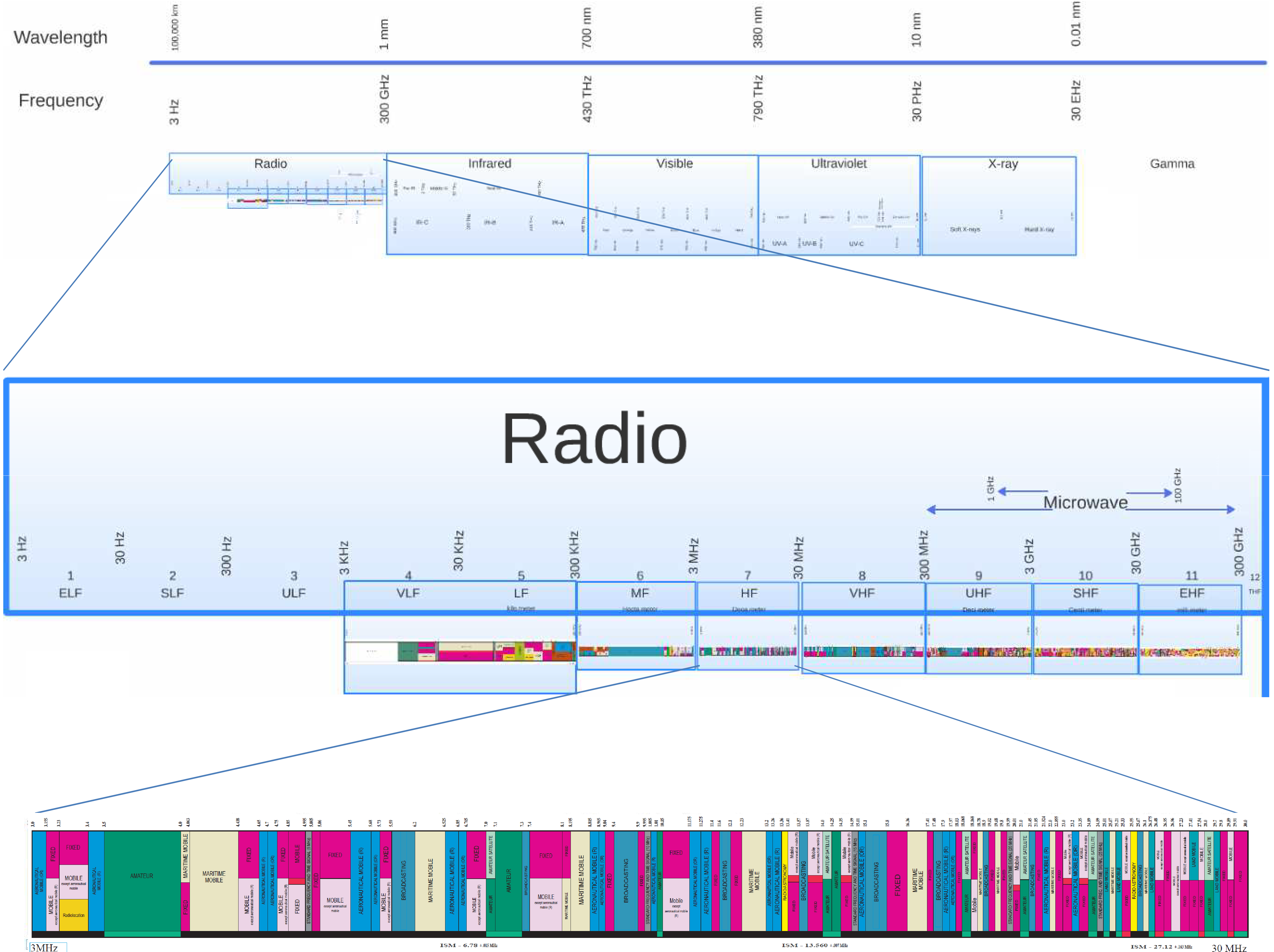 High Frequency: A Big Picture of High Frequency position in entire electromagnetic spectrum.